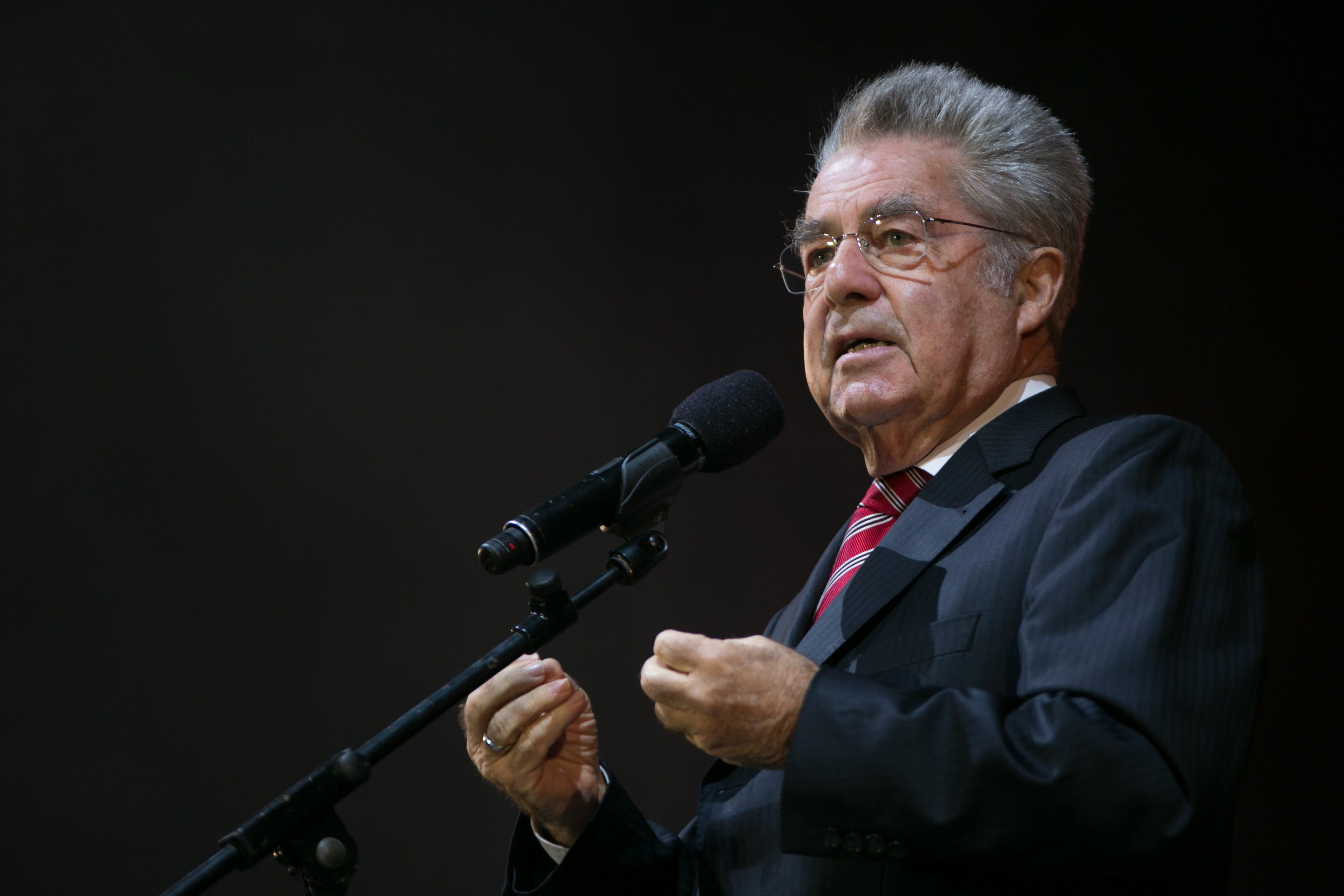 Heinz Fischer